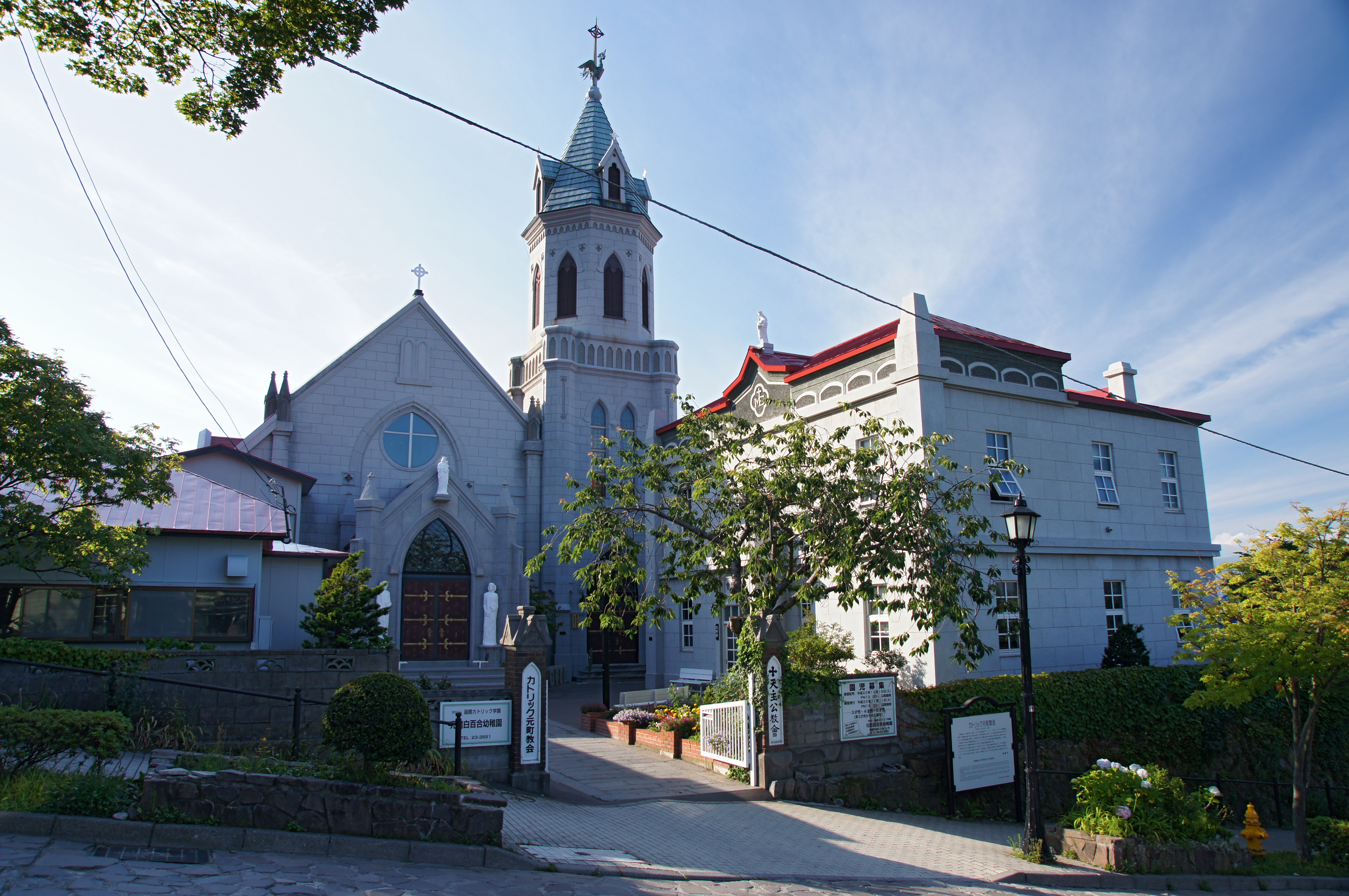 Motomachi Catholic Church in Hakodate, Hokkaido prefecture, Japan